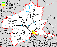 Map showing extent of former Nawa District, Gunma, Japan